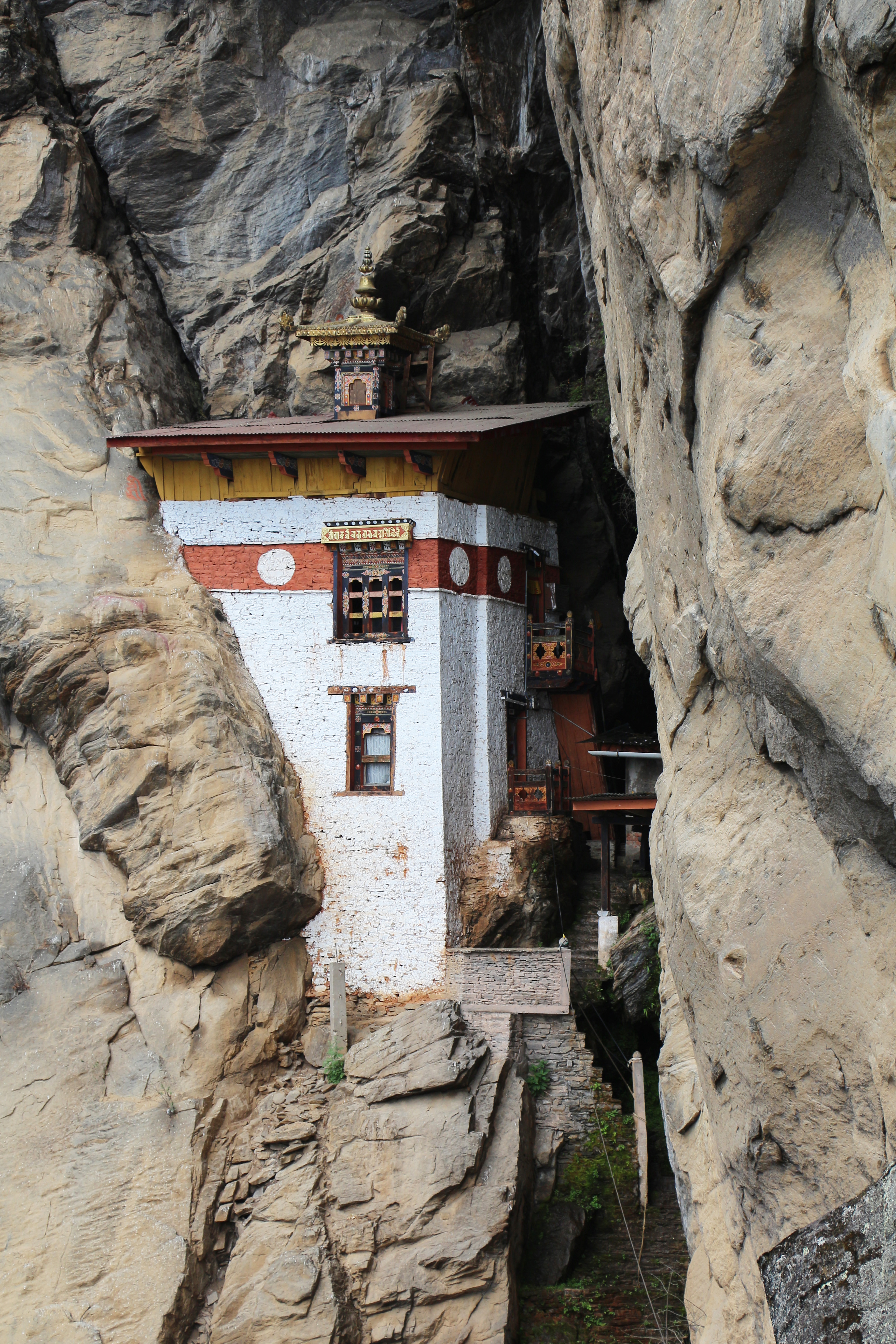 A building of Taktsang Palphug Monastery, Bhutan